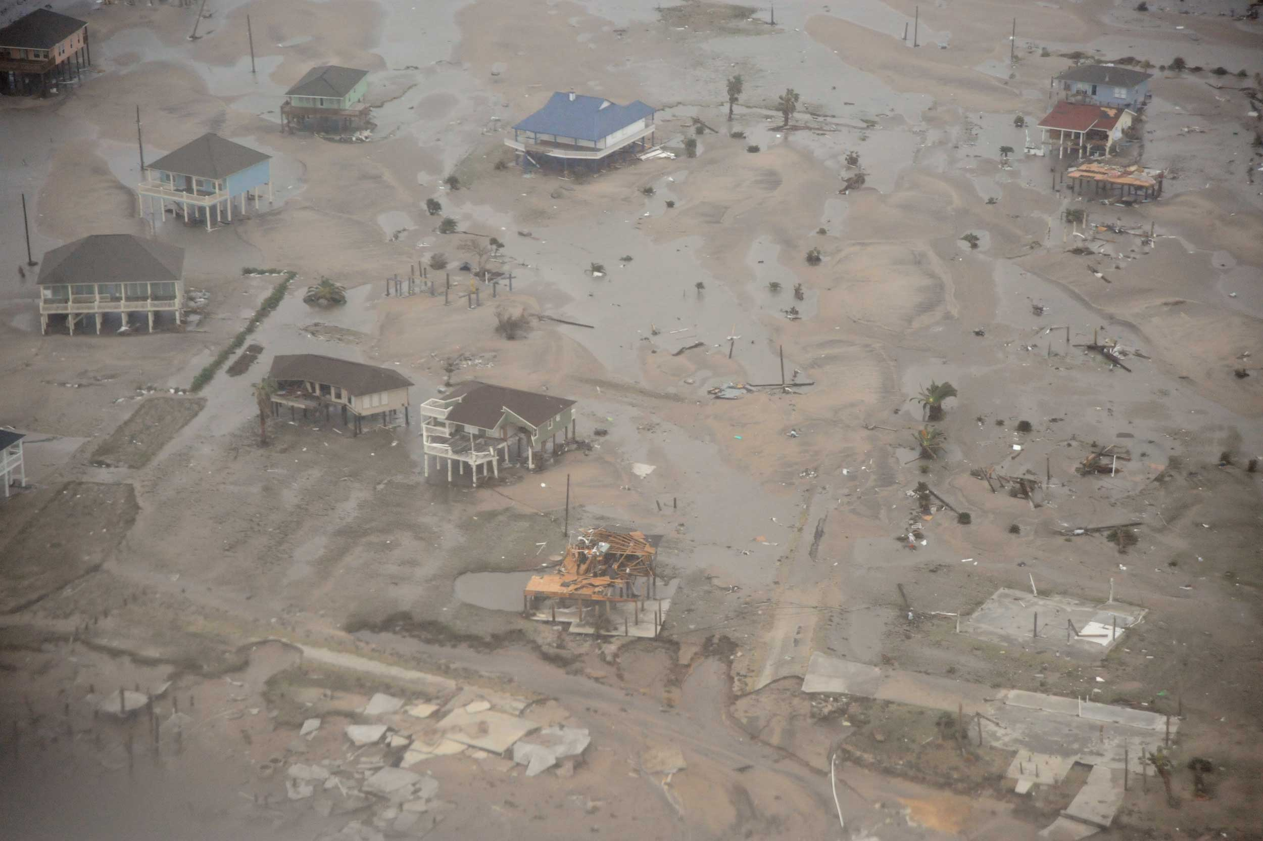 GALVESTON, Texas Ð A Coast Guard HU-25 Falcon jet crew flew over Galveston Island near Bolivar Point, parts of which were damaged or destroyed during Hurricane Ike, to assess damage to communities, critical infrastructure and waterways, Saturday, Sept. 13, 2008.